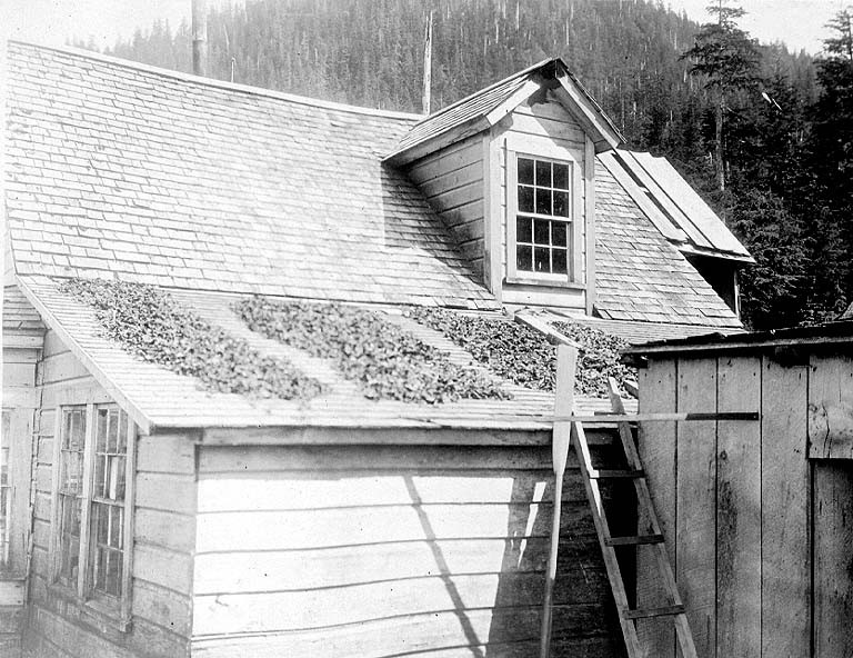 From John Cobb field notebook: Seaweed drying, Shakan, July 16, 1911 Subjects (LCTGM): Tlingit Indians--Subsistance activities Subjects (LCSH): Food drying--Alaska--Shakan; Marine algae as food--Alaska--Shakan